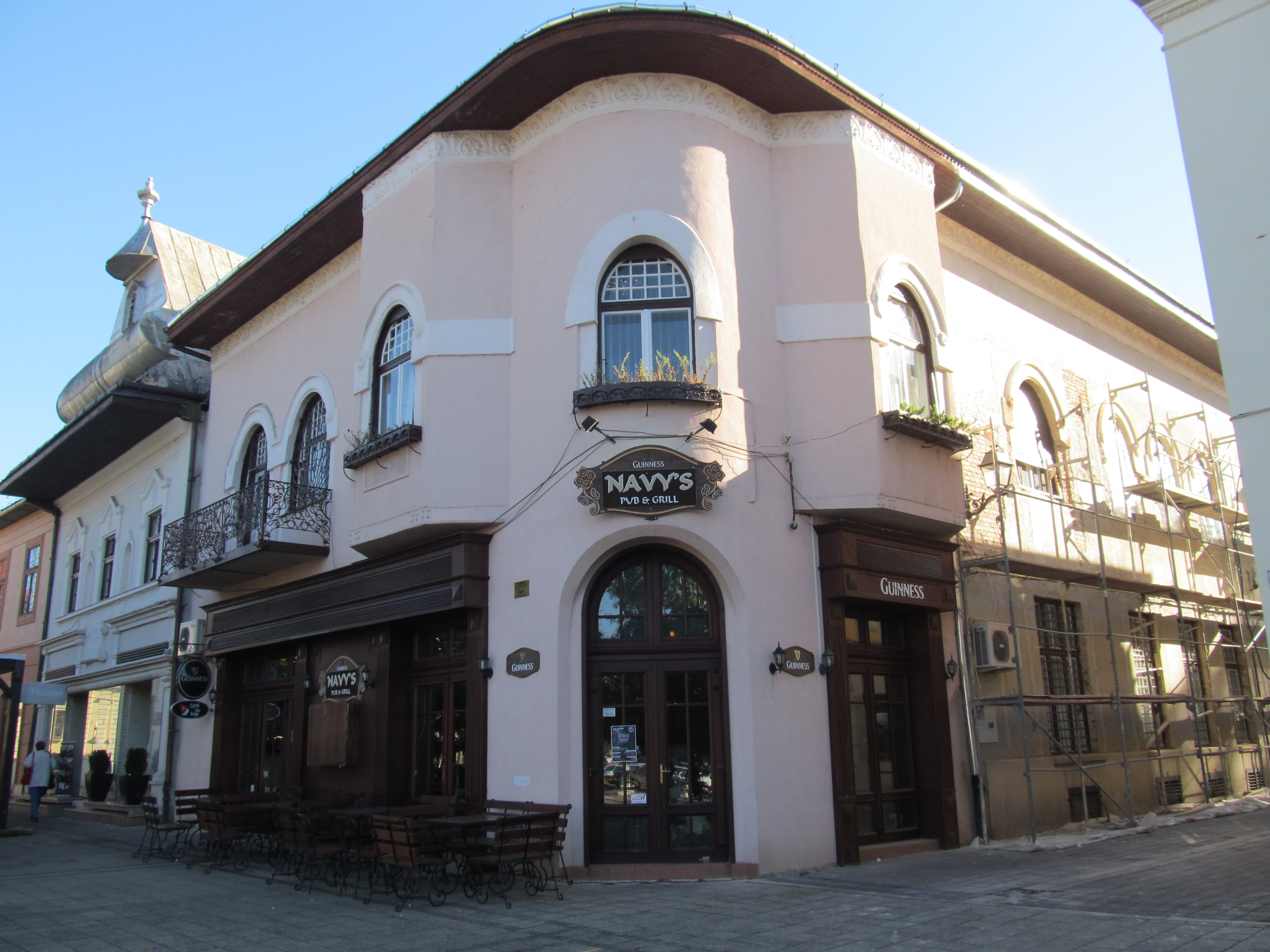 House in the historic center of the city of Baia Mare, Maramureș county, Romania.